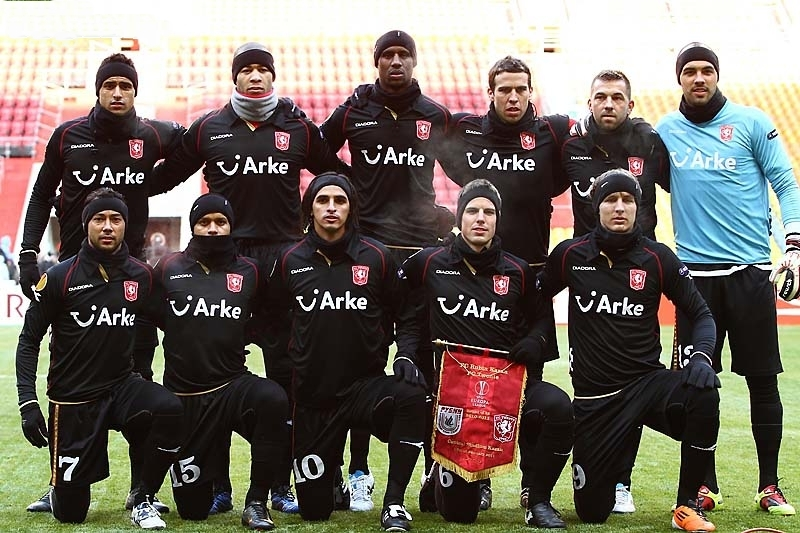 FC Twente in UEFA Europa League round of 32 match against FC Rubin Kazan